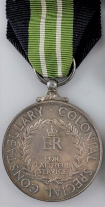 Long service award for Special Constabulary in British colonies and Overseas Territories.